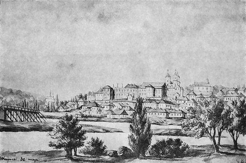 Drawing of the walls (Moory) and Jesuits Collegium in Vinnitsa, Ukraine